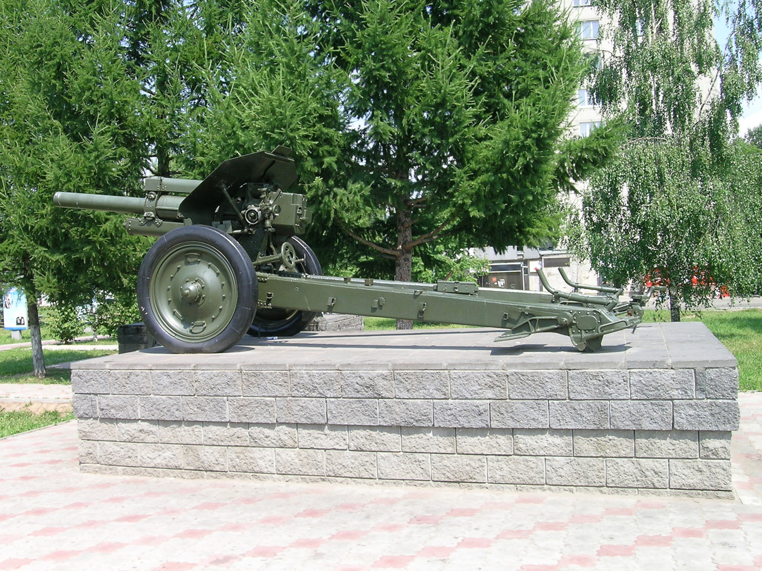 122-mm howitzer model 1938 (M-30) as a monument in Great Patriotic War memorial at Marshal Zhukov Square, city of Nizhny Novgorod, Russia. Side view. Author: S. Filatov, 2006